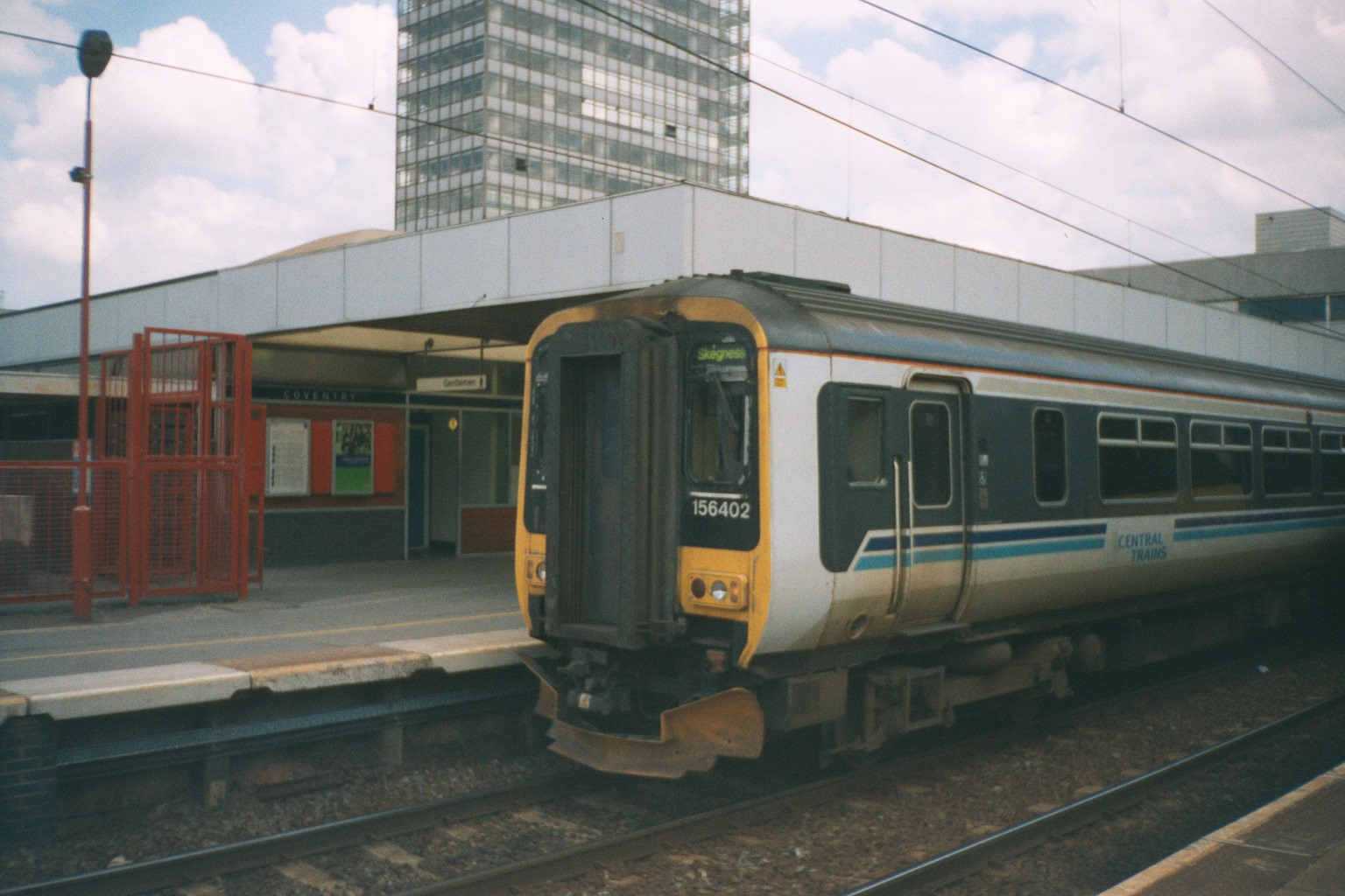 A British Rail Class 156 DMU at Coventry railway station in 2000. It is still in the old BR Regional Railways Express livery, but has a Central Trains name tag. The direct service from Coventry to Skegness ended in 2004.